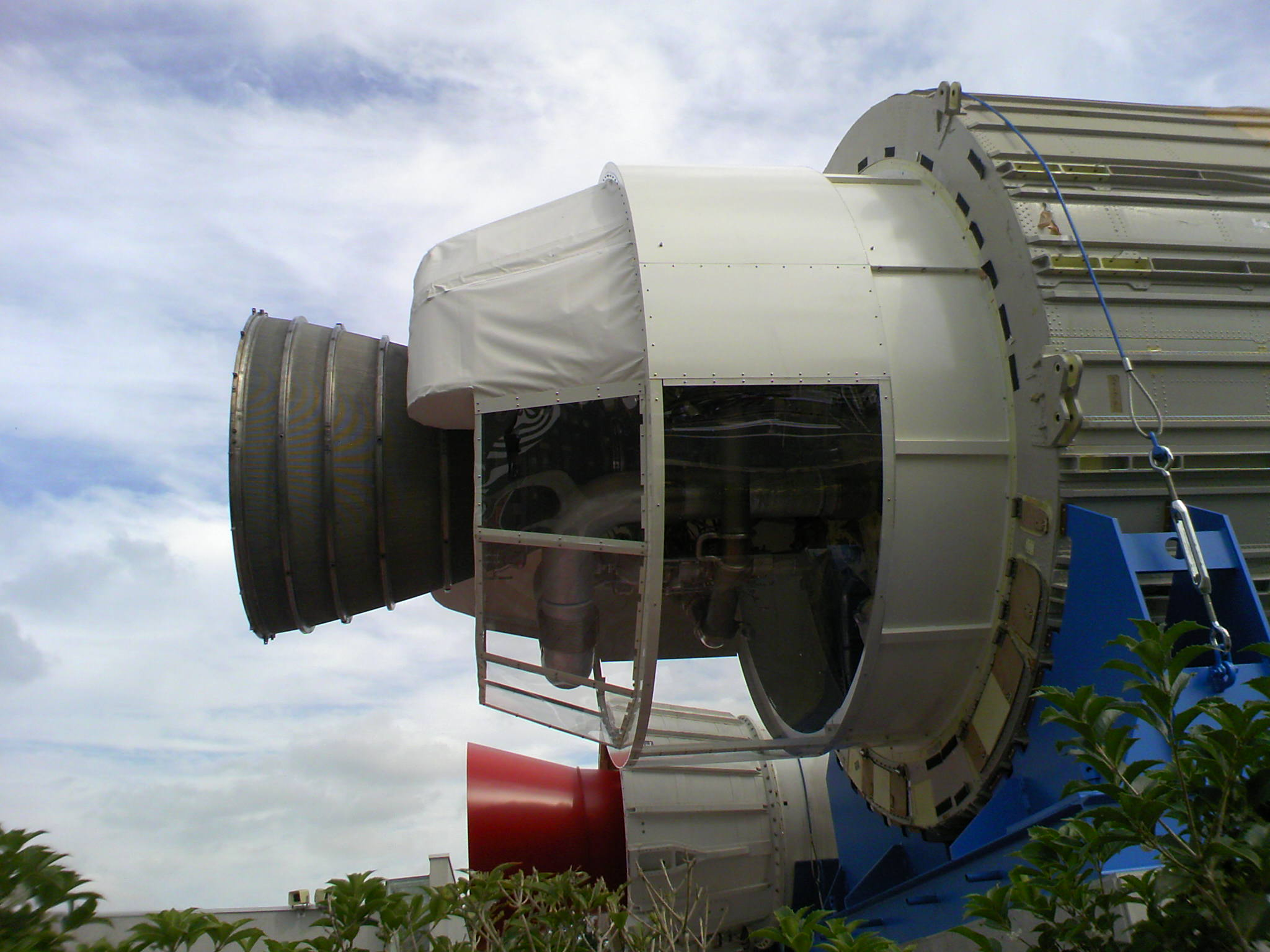 LE-7 Engine join to H-II GTV.